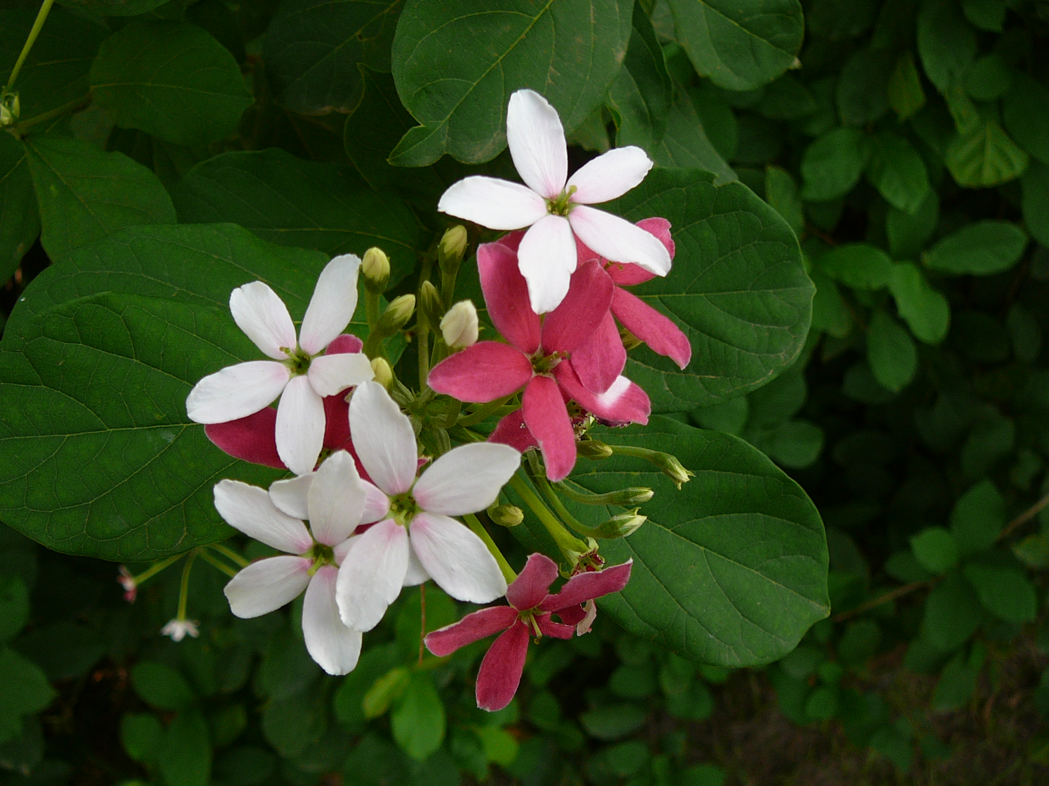 Rangoon creeper